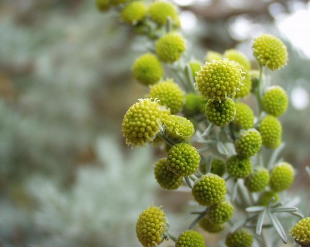 Artemisia arborescens, a photography originating of the internet site The accord of the autor, H. Brisse, is here.